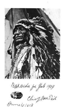 Image with autograph and thumbprint for Chief Iron Tail, a model for the Buffalo Nickel